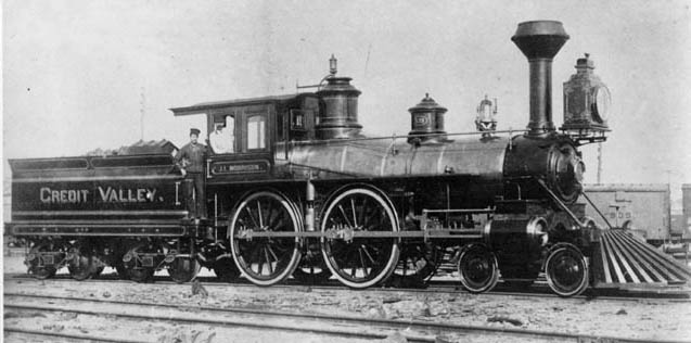 CV 19 J.L.Morrison, a director of CVR (8-84 became CPR 186). Canadian Locomotive and Engine Co. #234 10-1881 Note: 18 and 19 believed to be the first CLC engines equipped with Westinghouse air brakes (for cars only), air pump located between 69" drivers.